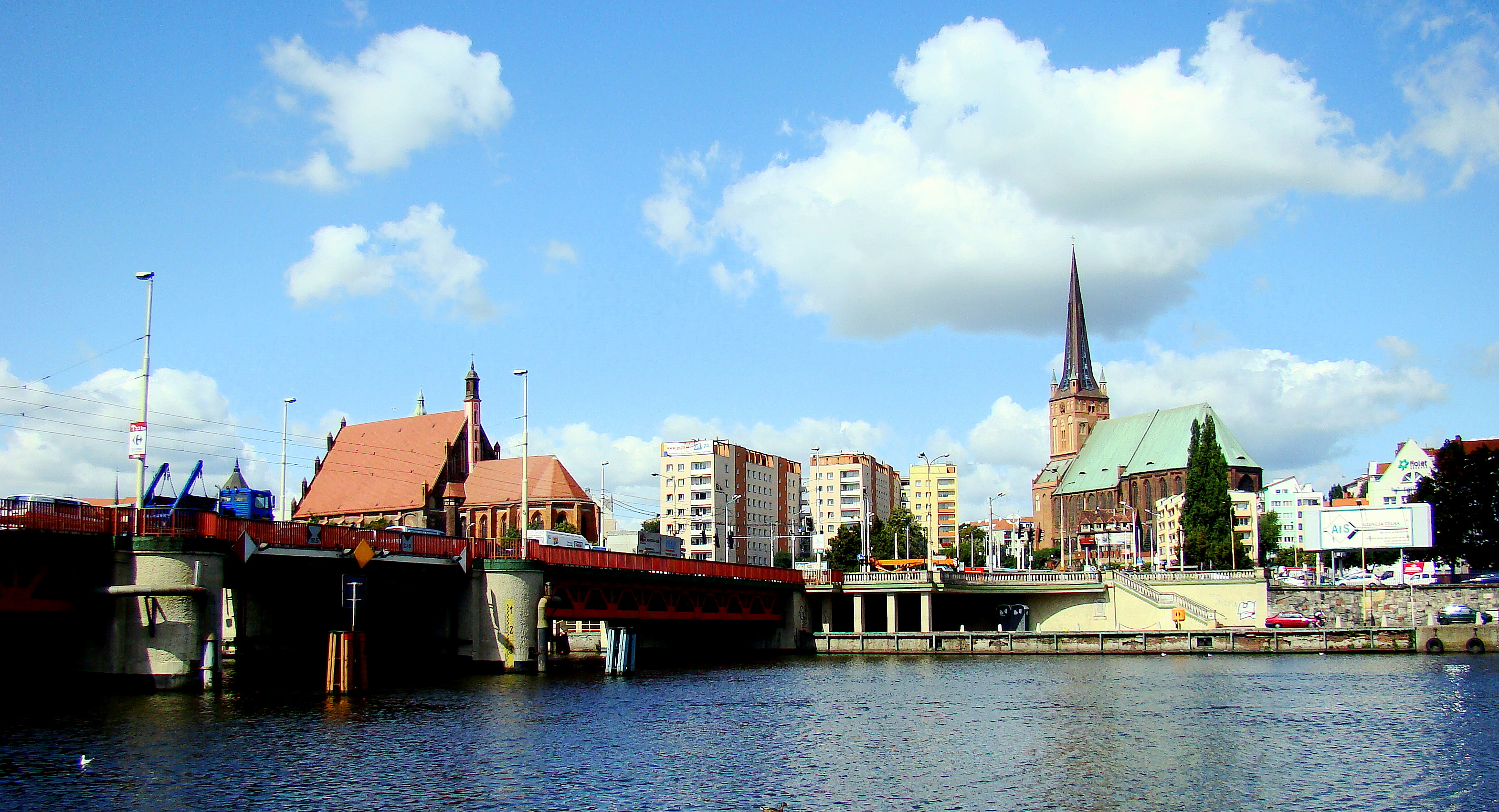 Dlugi Bridge, Szczecin, Poland